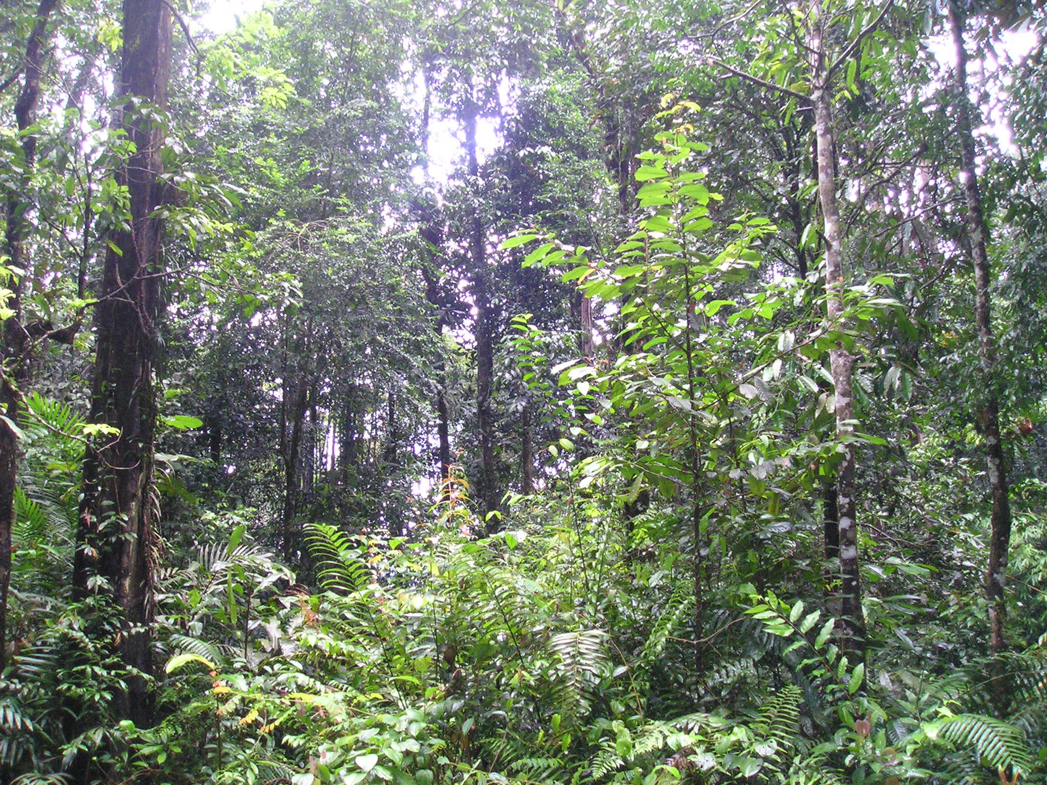 Mount Korbu has many rainforest foothills. The rainforests are one of the oldest in the world, home to numerous local tribes and large fauna.